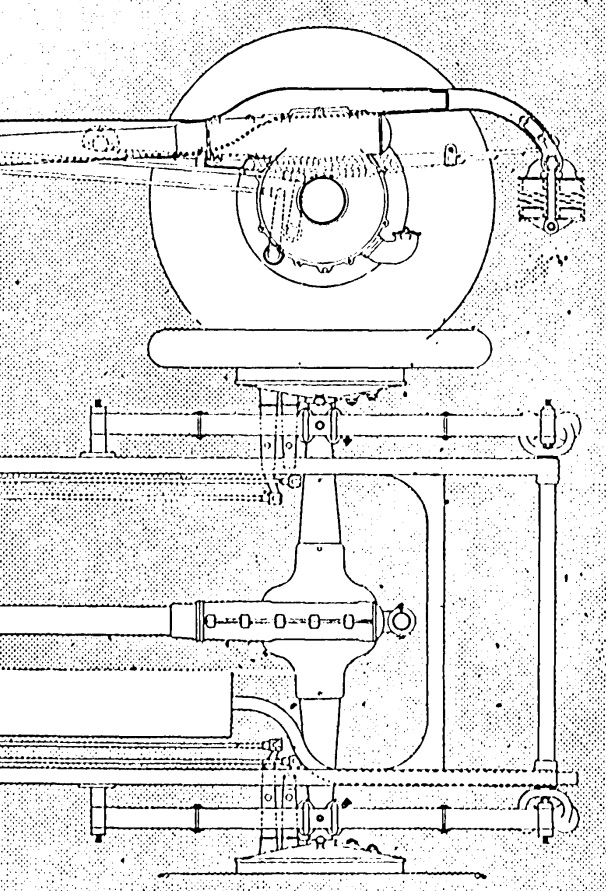 1911 Rover 12 unusual rear suspension with coil springs linking the back end of the semi-elliptics to the chassis frame